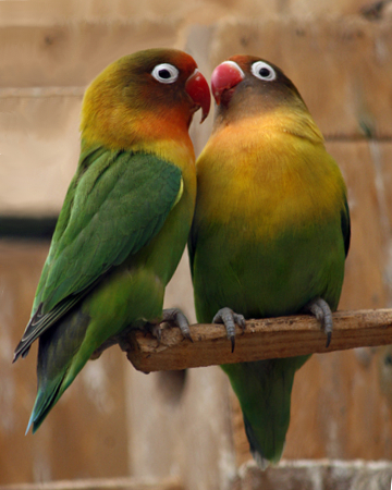 Lovebird (Agapornis sp; a hybrid cross between Agapornis personatus x Agapornis fischeri).